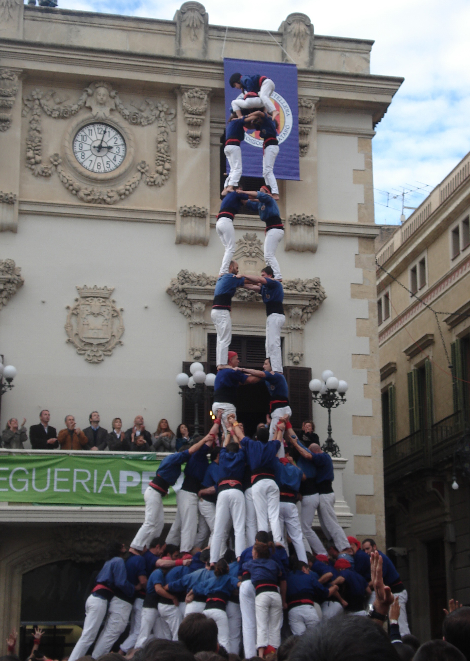 First tower of nine maked by Capgrossos de Mataró